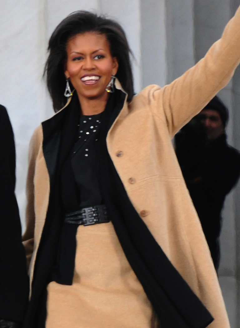 Michelle Obama waves to the crowd during the inaugural opening ceremonies at the Lincoln Memorial on the National Mall in Washington, D.C., Jan. 18, 2009.